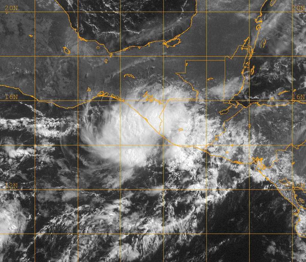 Satellite image of Tropical Storm Barbara on June 2, 2007